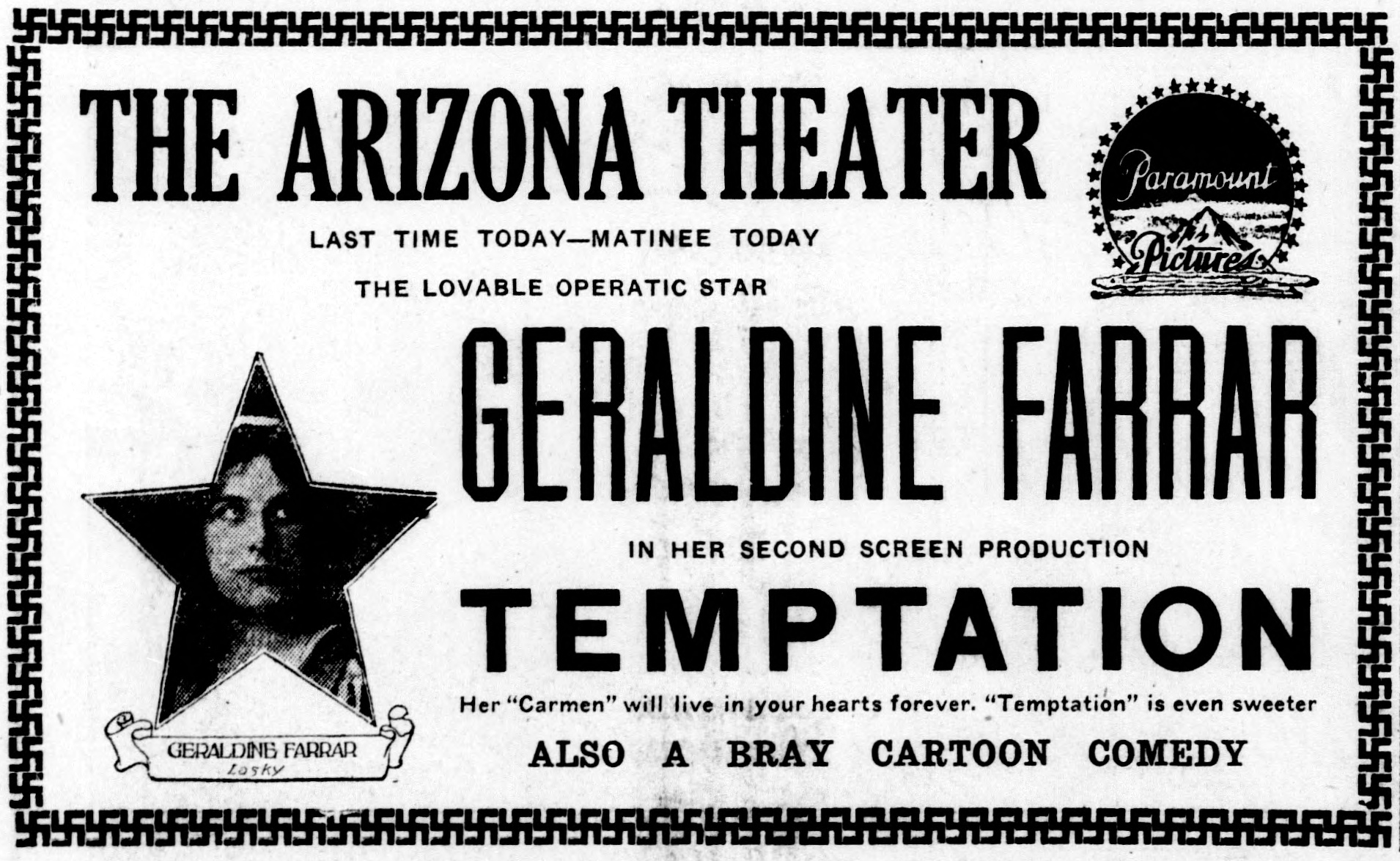 Temptation is a 1915 American silent romantic drama film directed and produced by Cecil B. DeMille. This is a newspaper advert for the film.